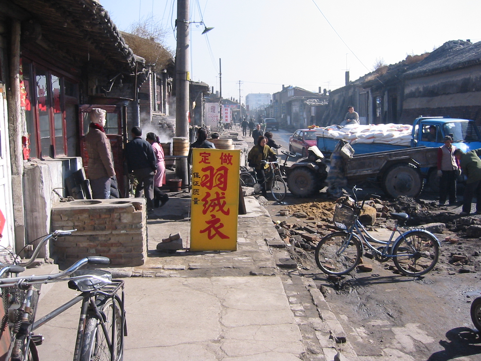 Old town in Datong